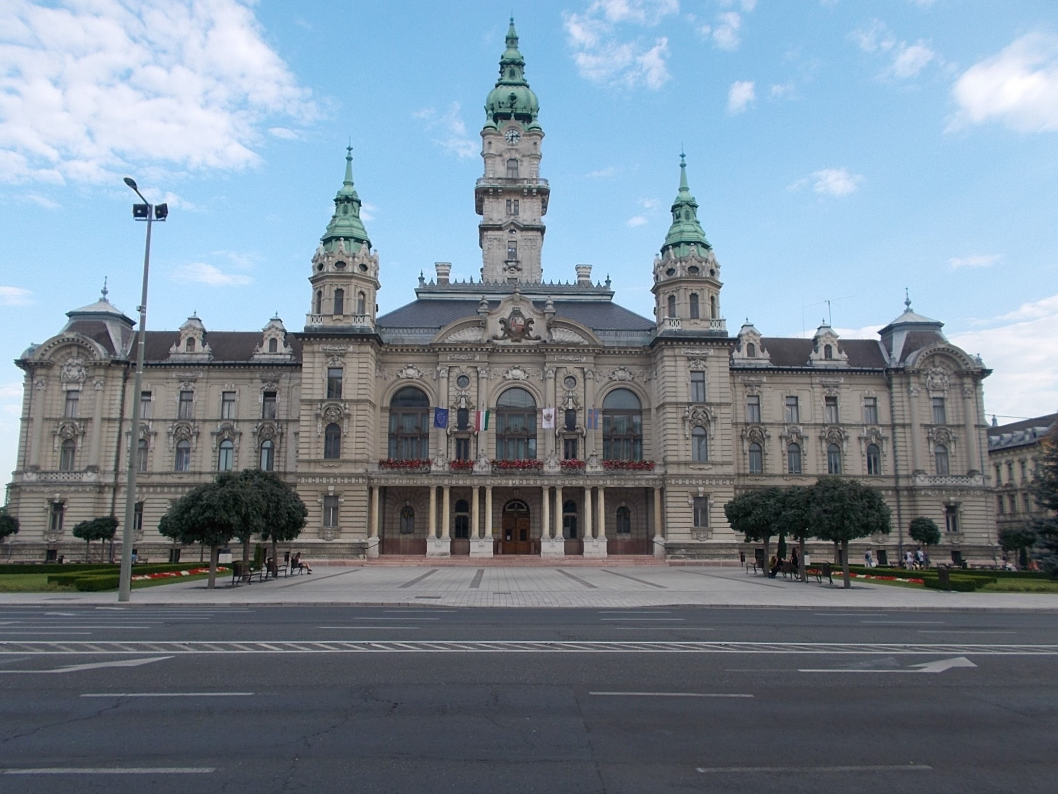 Town Hall by Jenő Hübner (1900). Listed Eclectic building. - Ferdinándváros neighbourhood, Downtown, Győr, Győr-Moson-Sopron County, Hungary.